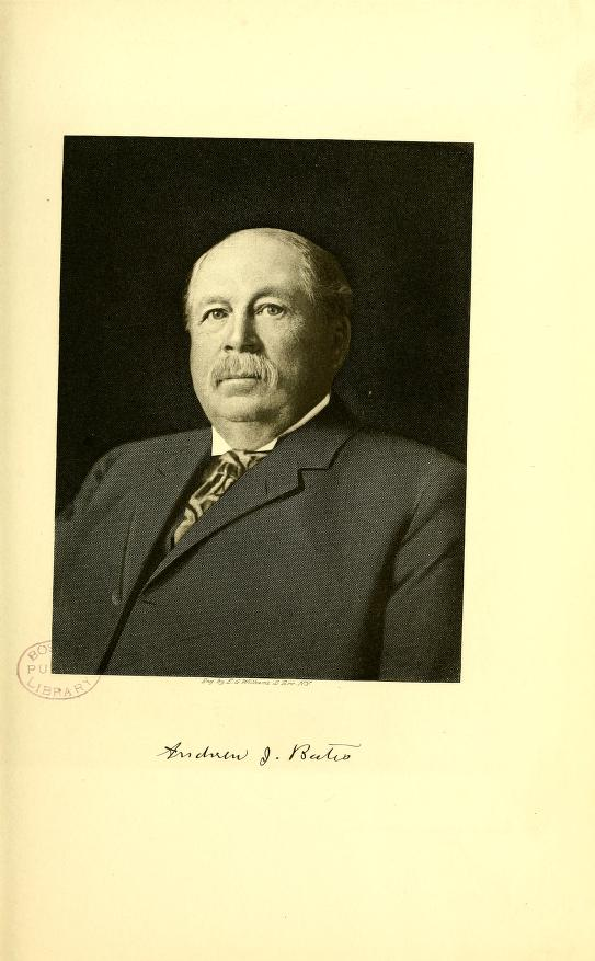 Portrait of Andrew J Bates